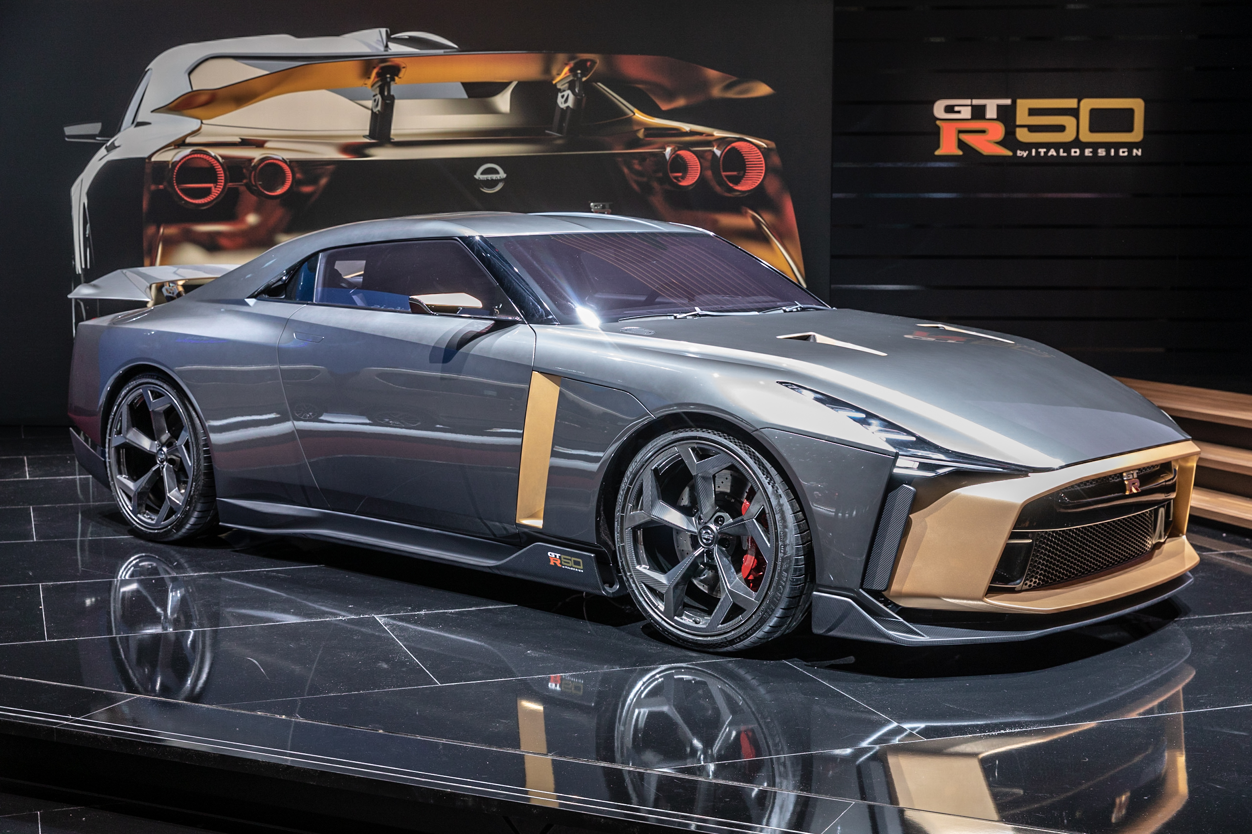 Geneva International Motor Show 2019, Le Grand-Saconnex